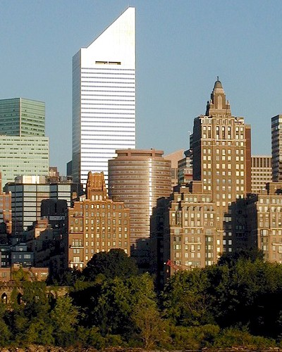 Looking West-Northwest at Citigroup Center, New-York, by Johan Burati, public domain. Category:Lipstick building is in foreground.